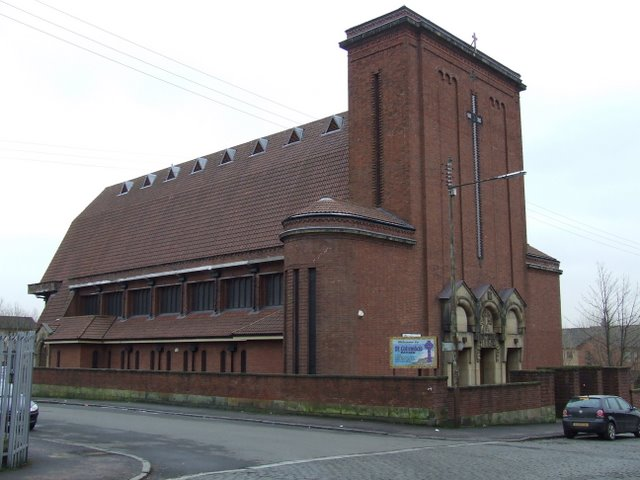 St Columba's RC Church. A Gillespie Kidd and Coia designed church on Hopehill Road. See also 1177763. See this for more information about the architects who designed many churches and schools in Scotland.